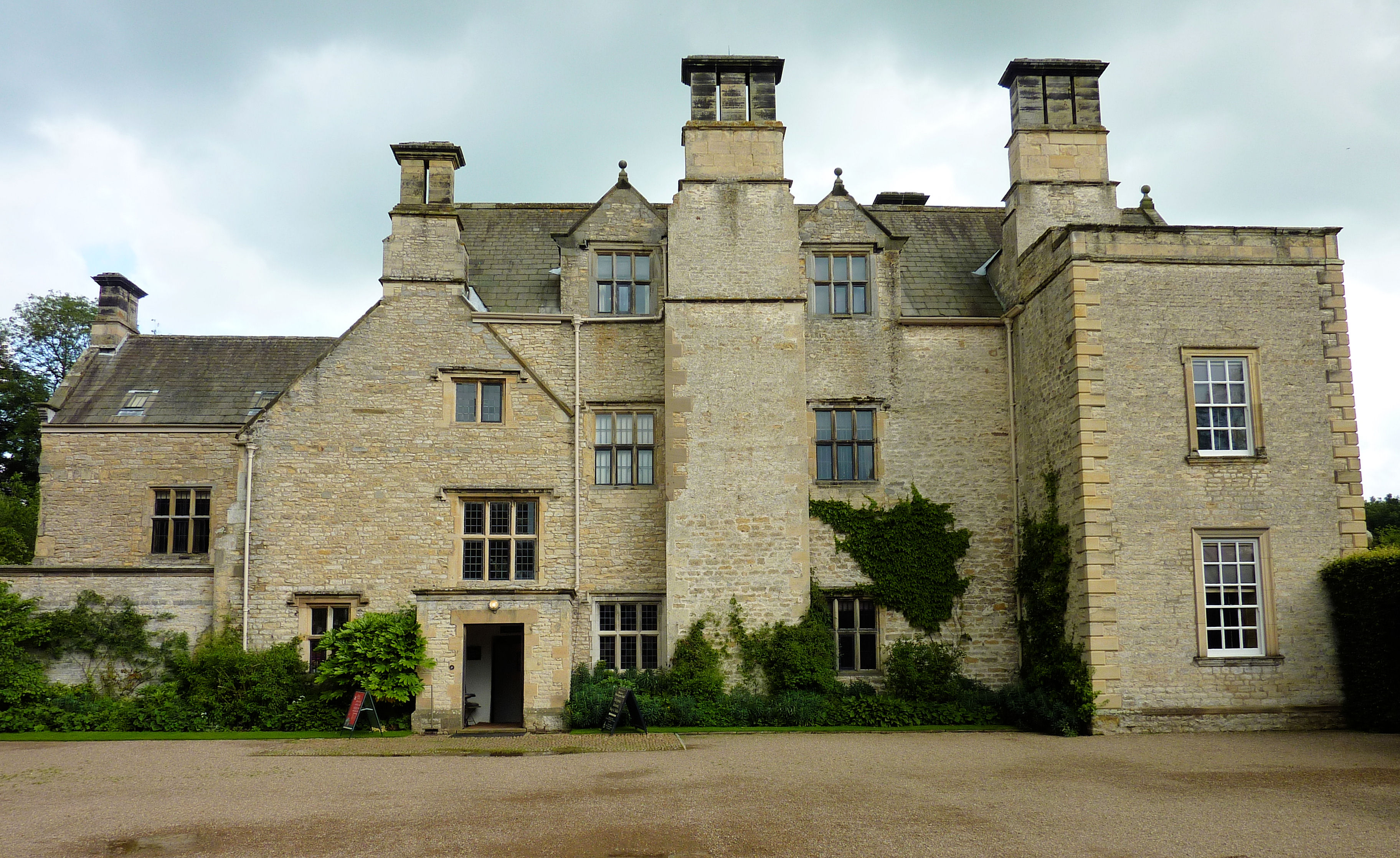 West Facade of Nunnington Hall